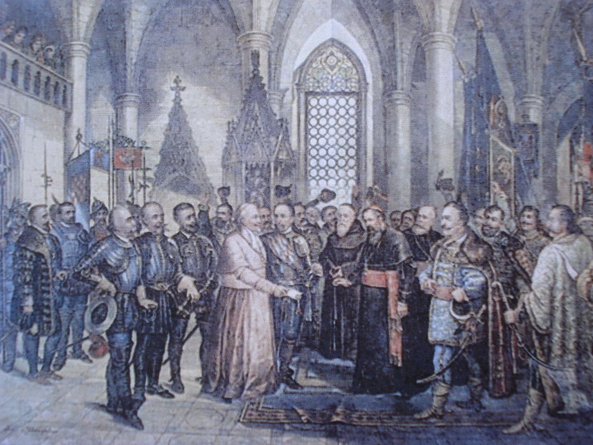 Parliament in Cetingrad, Croatia, on January 1st, 1527 - painted by Dragutin Weingärtner (1841-1916), Croatian painter